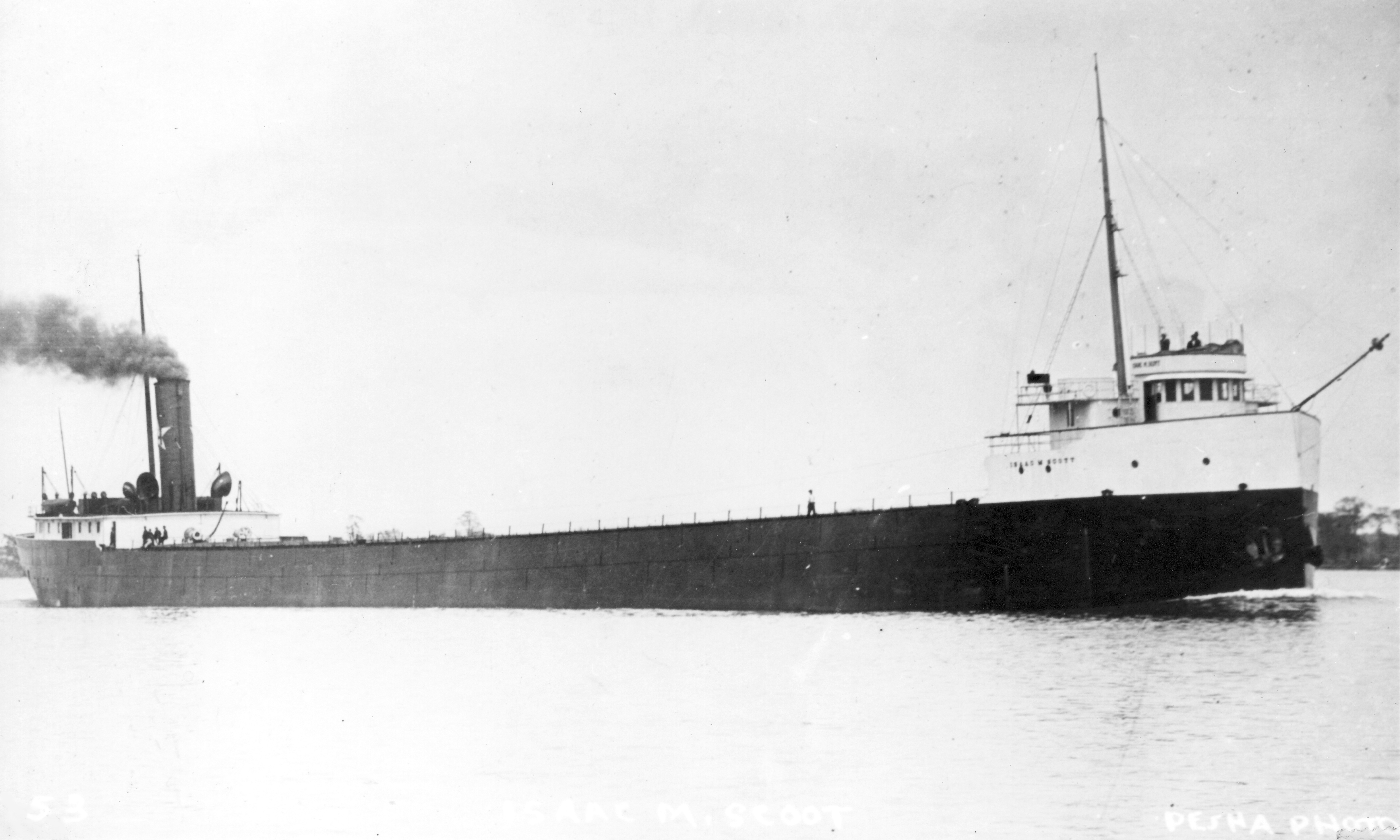 The steamer Isaac M. Scott before she sank